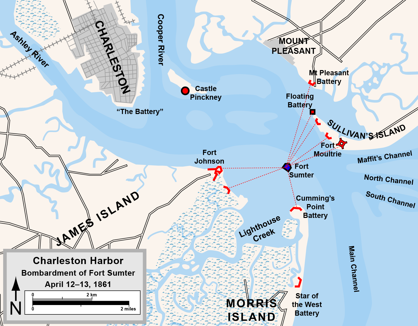 Map of the harbor of Charleston, South Carolina, showing Confederate forts and the bombardment of Fort Sumter, April 1861. Drawn in Adobe Illustrator CS5 by Hal Jespersen. Graphic source file is available at Attribution: Map by Hal Jespersen